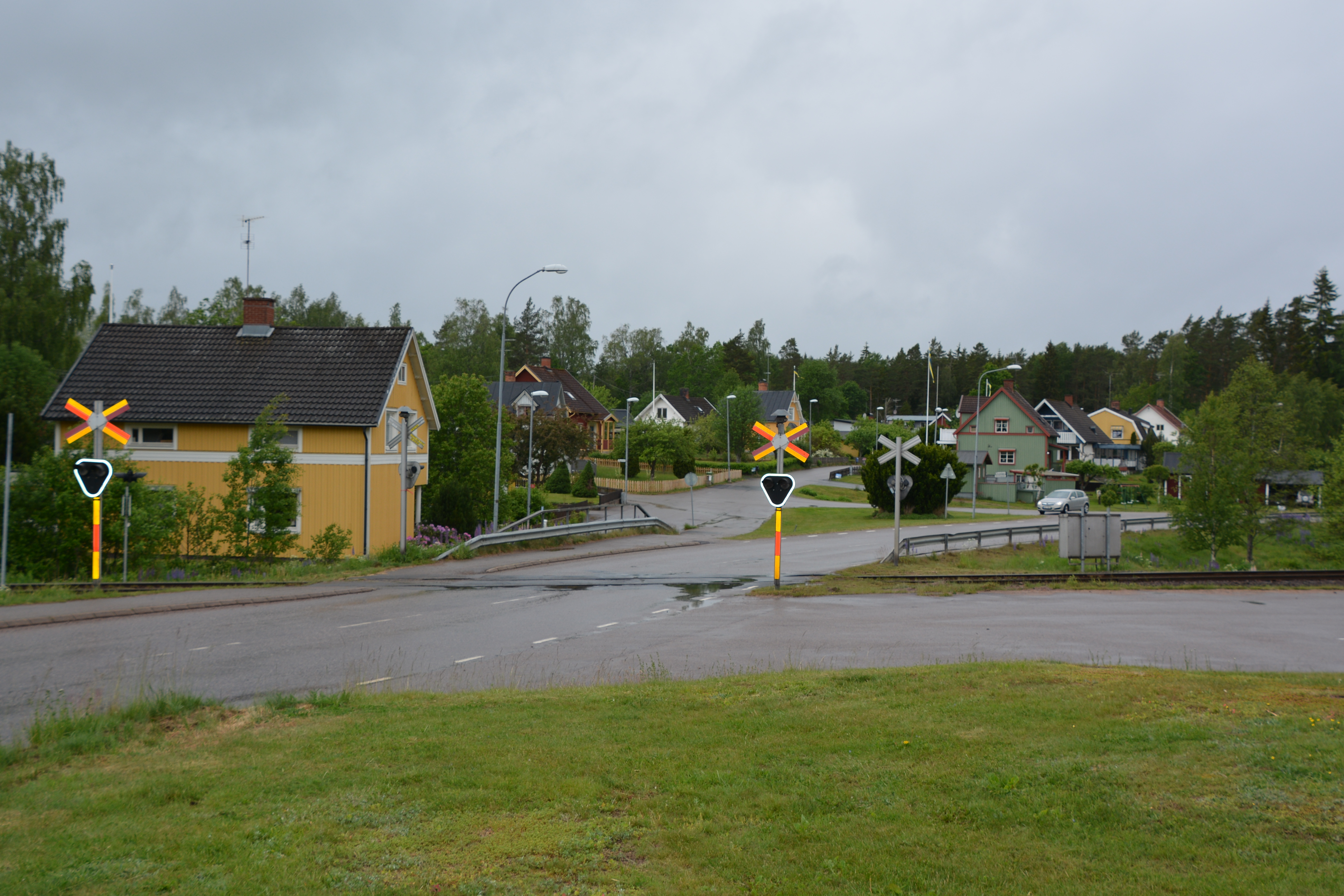 Järnvägskorsning Kvillsfors